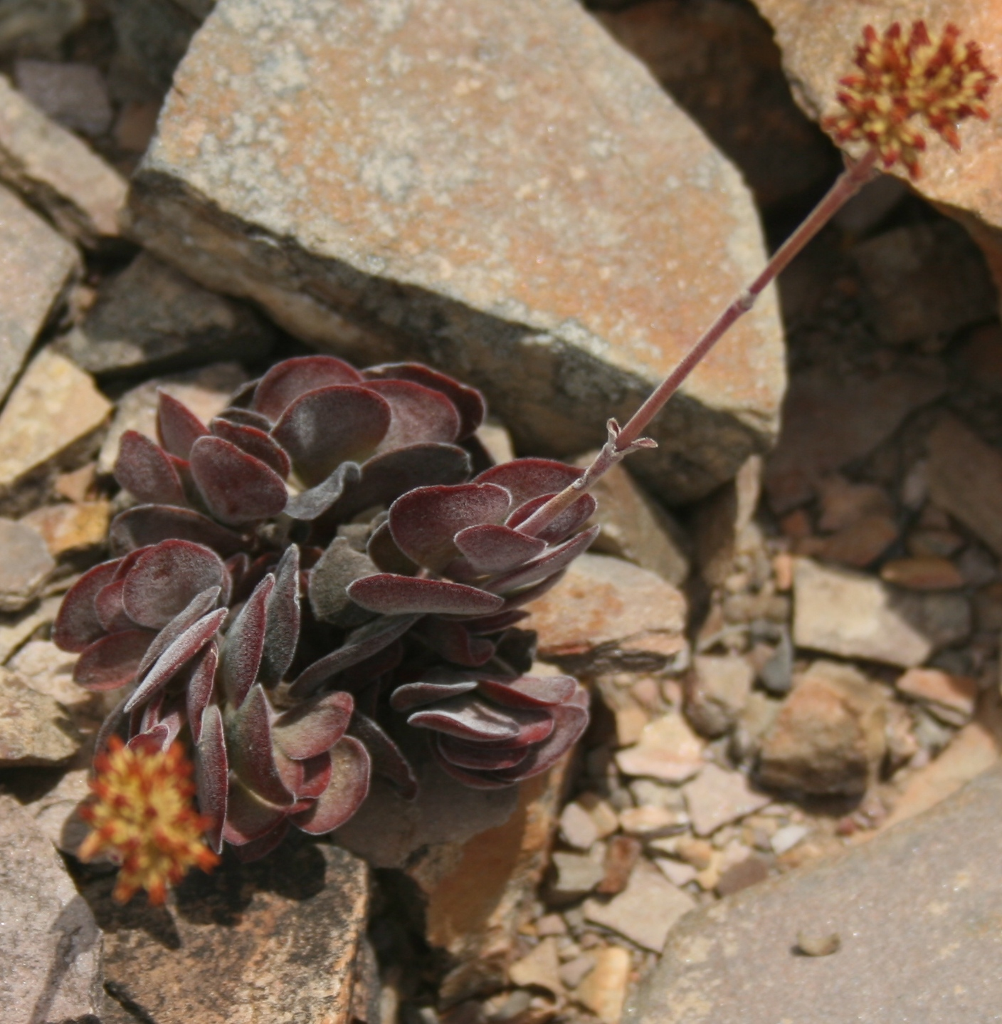 Crassula atropurpurea var muirii